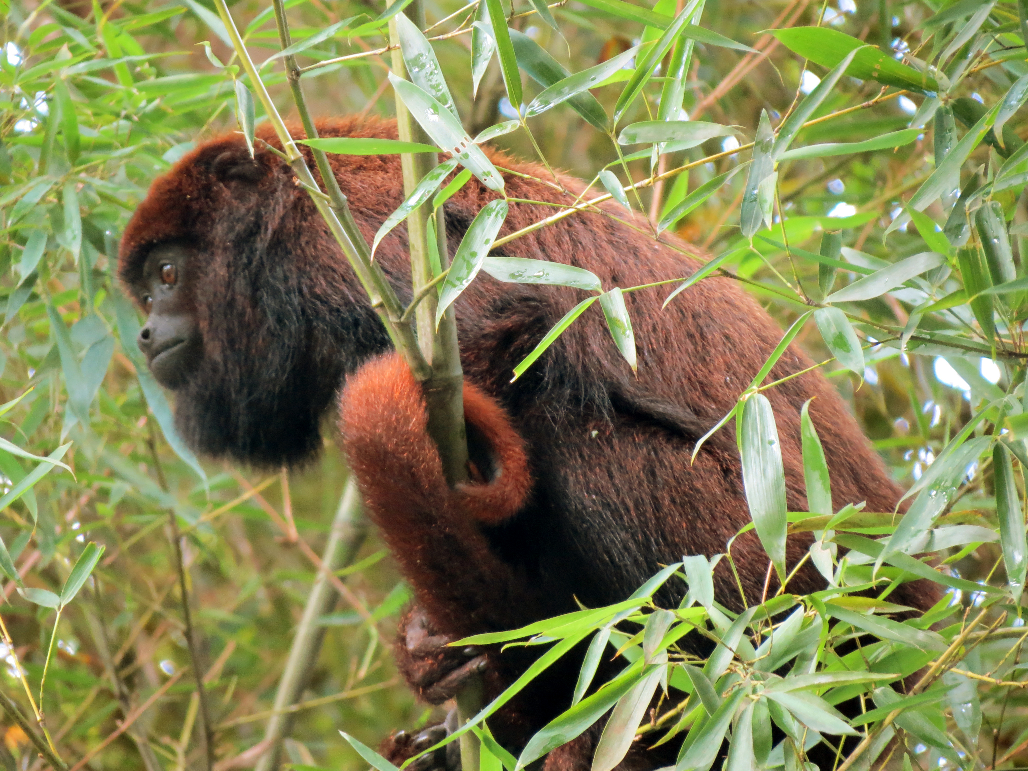 Brown howler monkey (Alouatta guariba clamitans) in São Paulo Zoo.